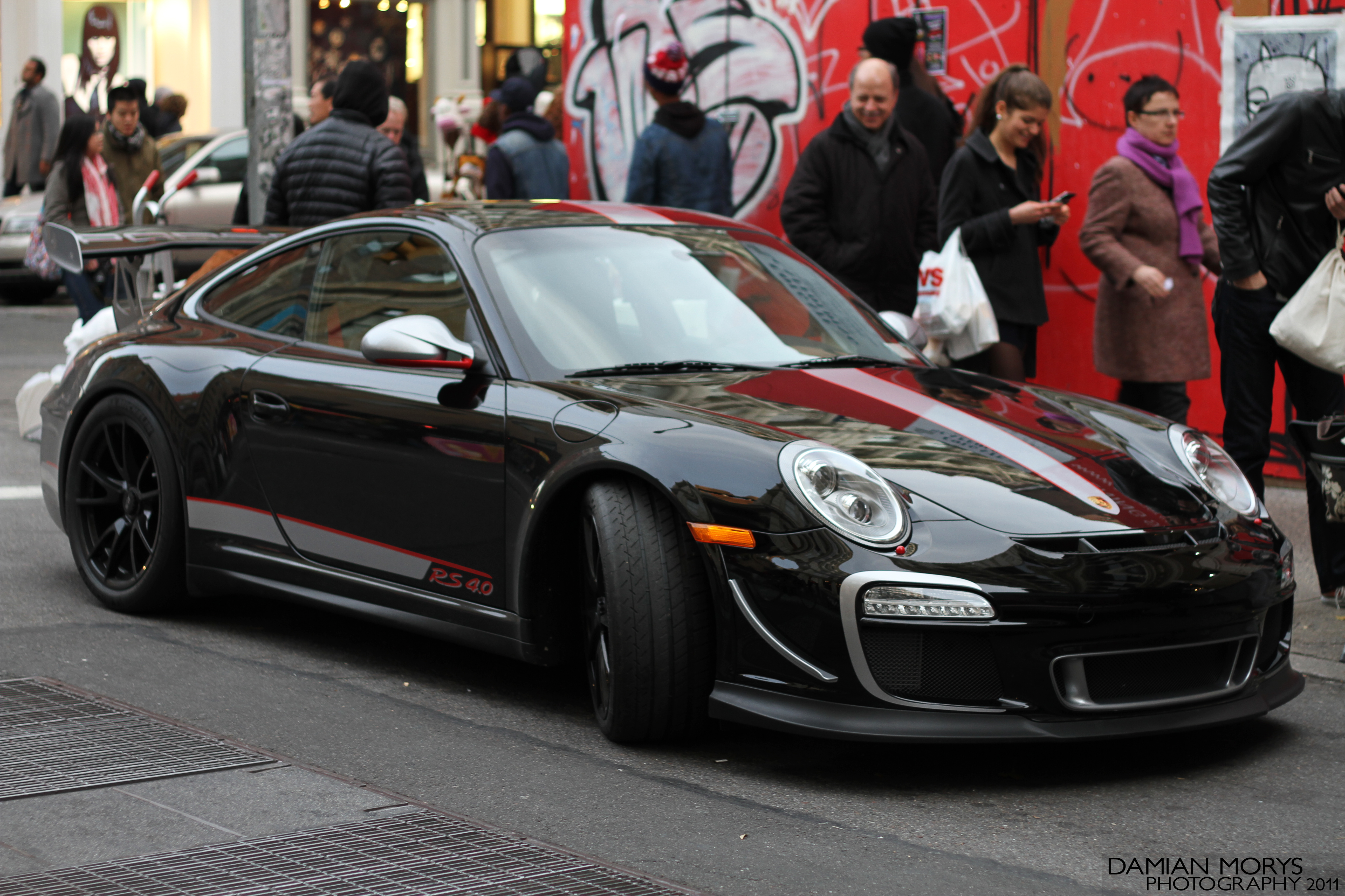 2011 Black Porsche 997 GT3 RS 4.0 (type of construction: 997 880) in SoHo, New York City. Original description: "Too bad the wheel wasn't turned the other way but what a stunning car."GT3 RS 4.0